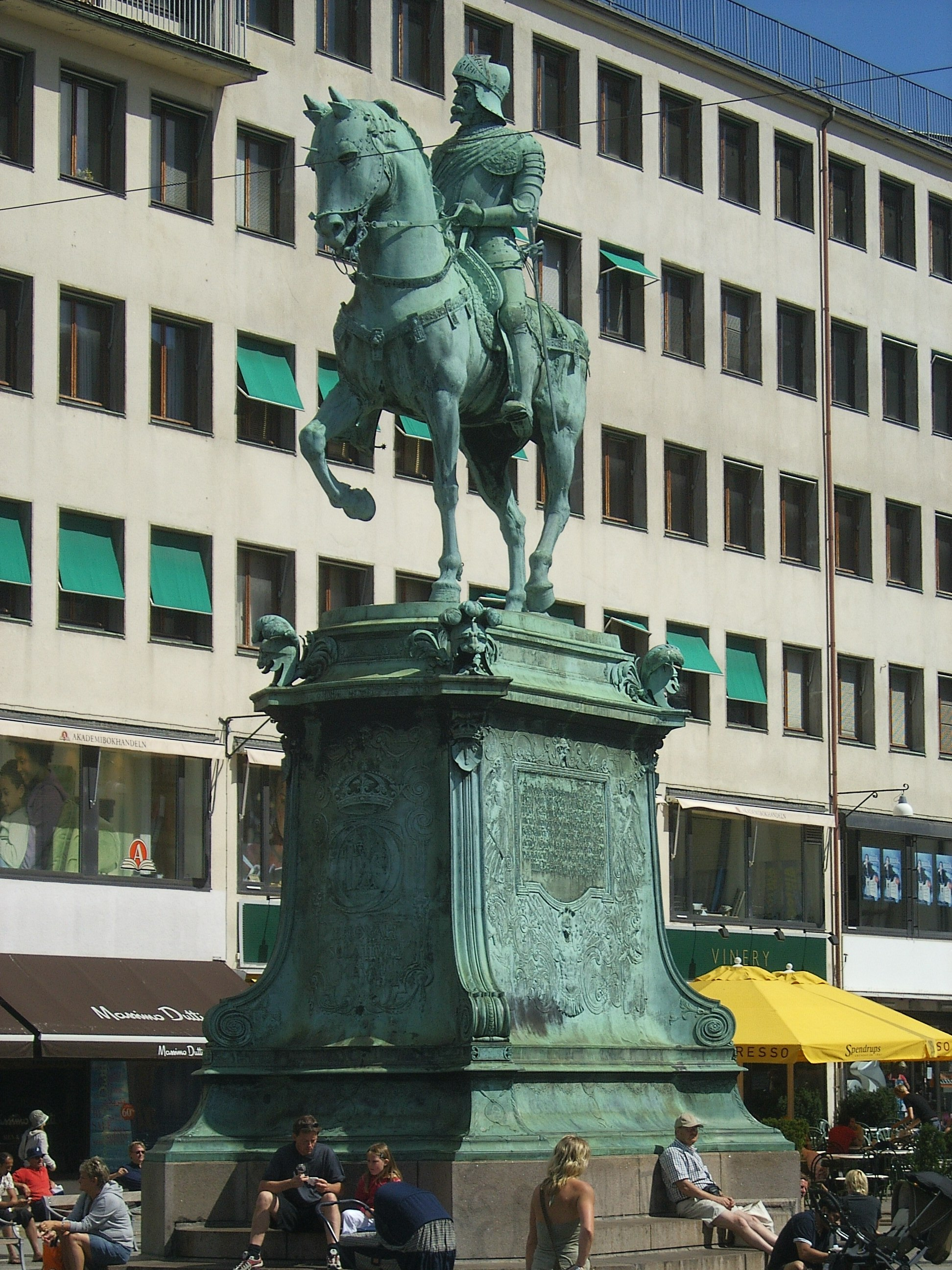 Statue of King Charles IX of Sweden in Gothenburg, Sweden.